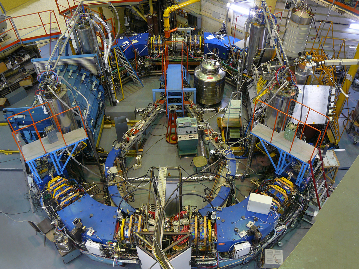 VEPP-2000 electron-positron collider at Budker Institute of Nuclear Physics with two detectors SND (left) and CMD-3 (right). Transfer beamlines are seen inside the ring.